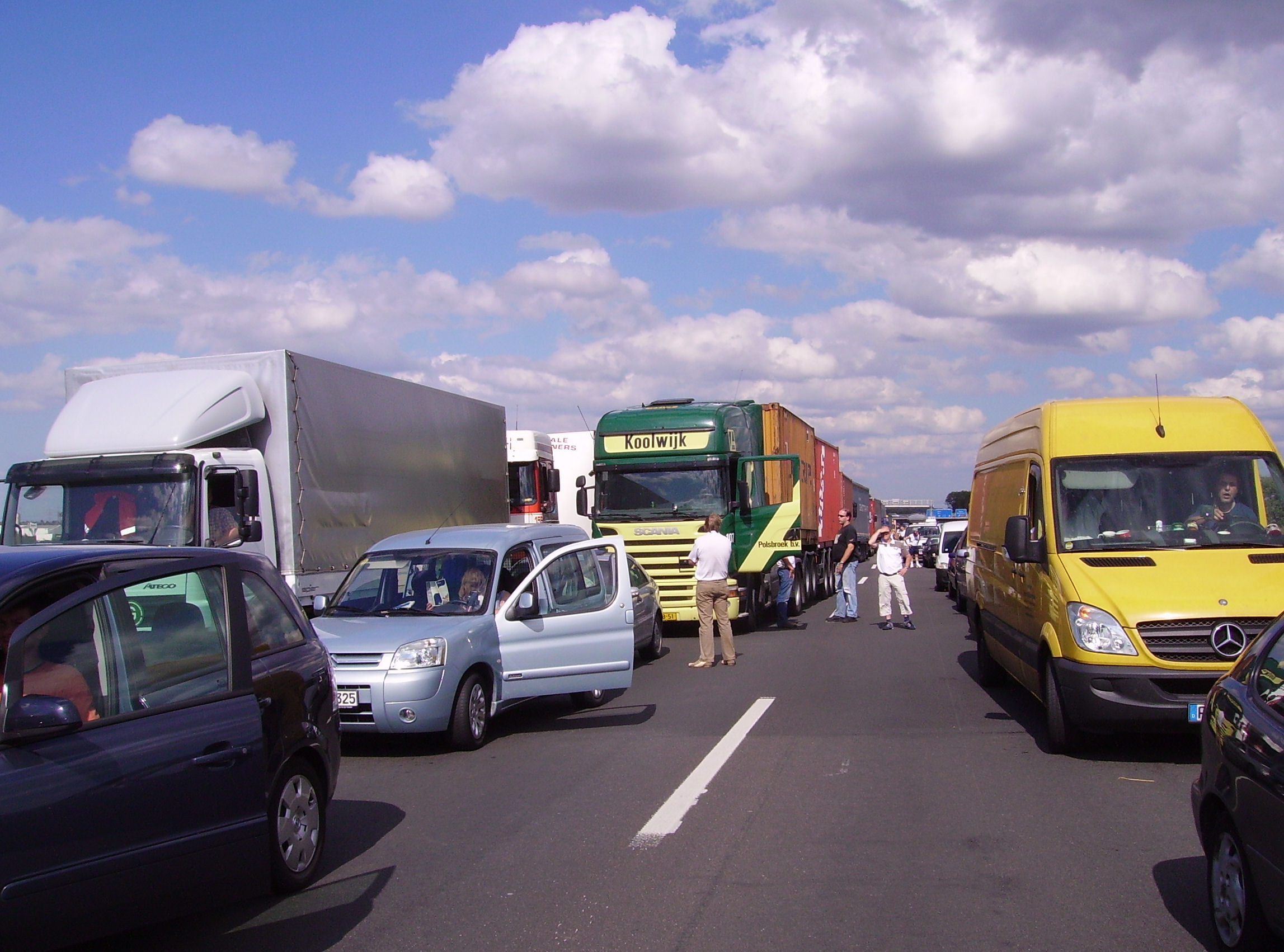 traffic jam near Aachen in Germany